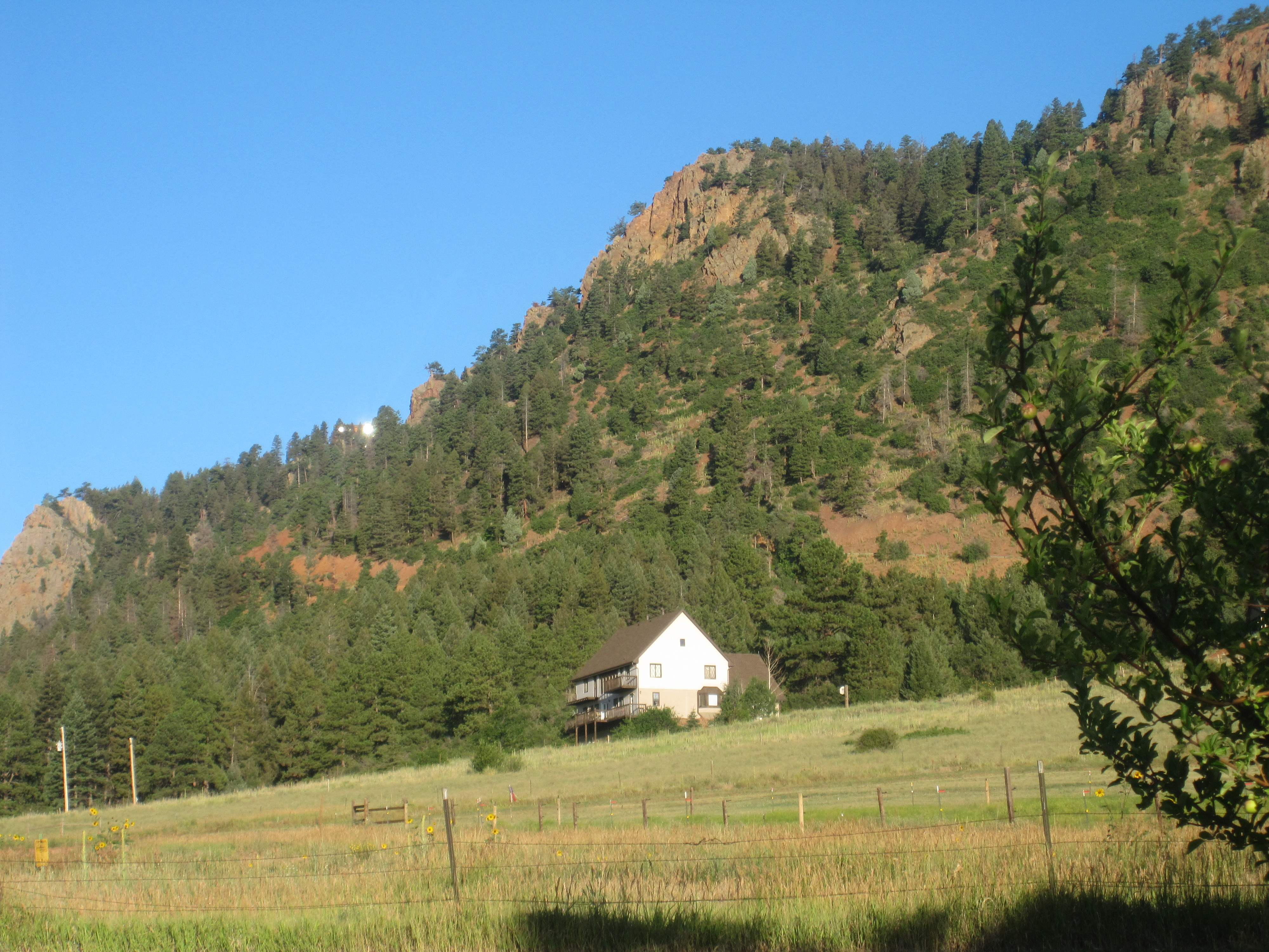 I took photo in El Paso County, CO, with Canon camera.